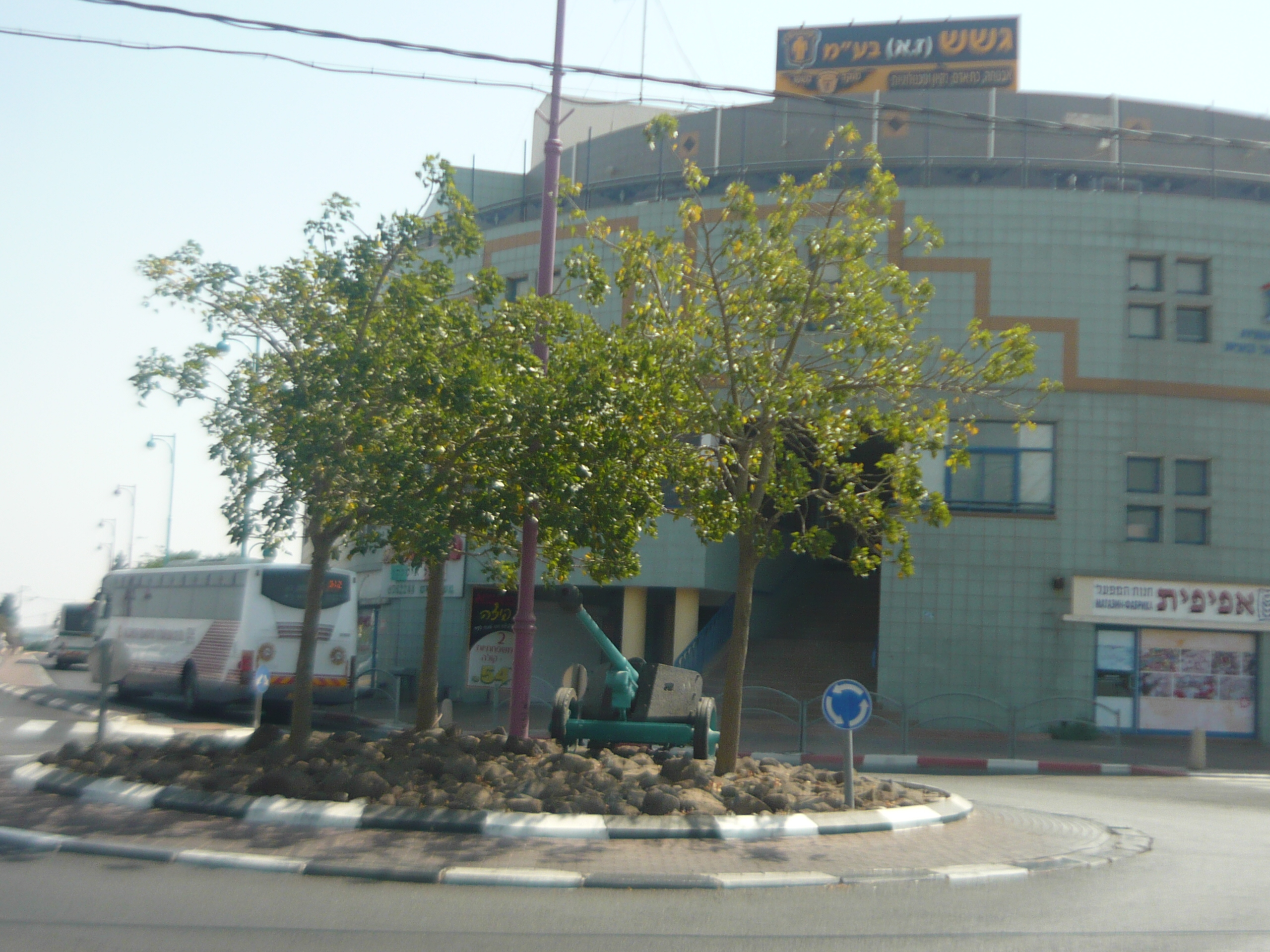 rasko center nazareth illit מרכז רסקו בנצרת עילית